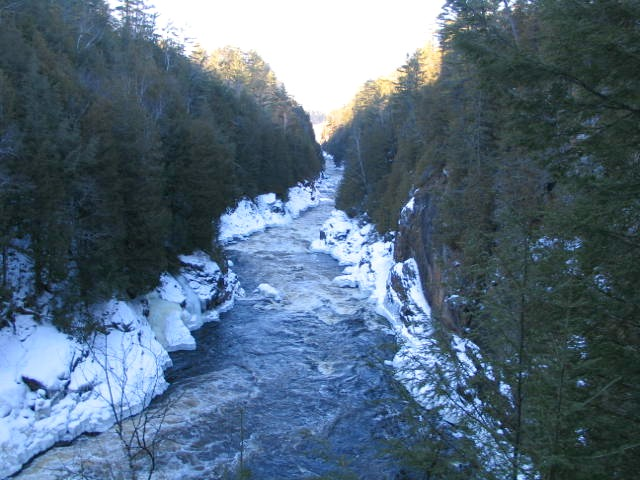 Chûtes Coulonge